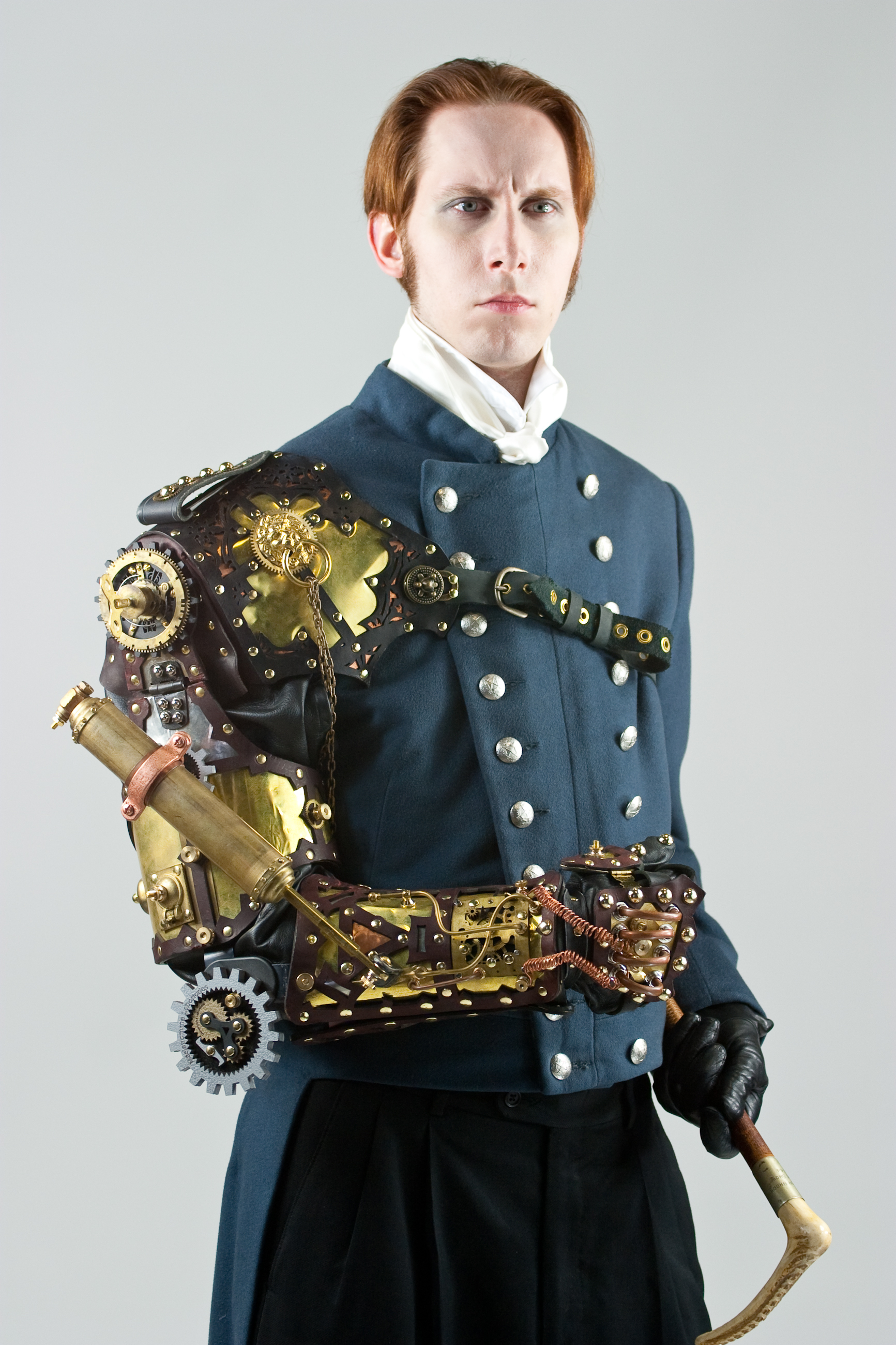 Steampunk image of author, G. D. Falksen, in an arm mechanism created by Thomas Willeford.